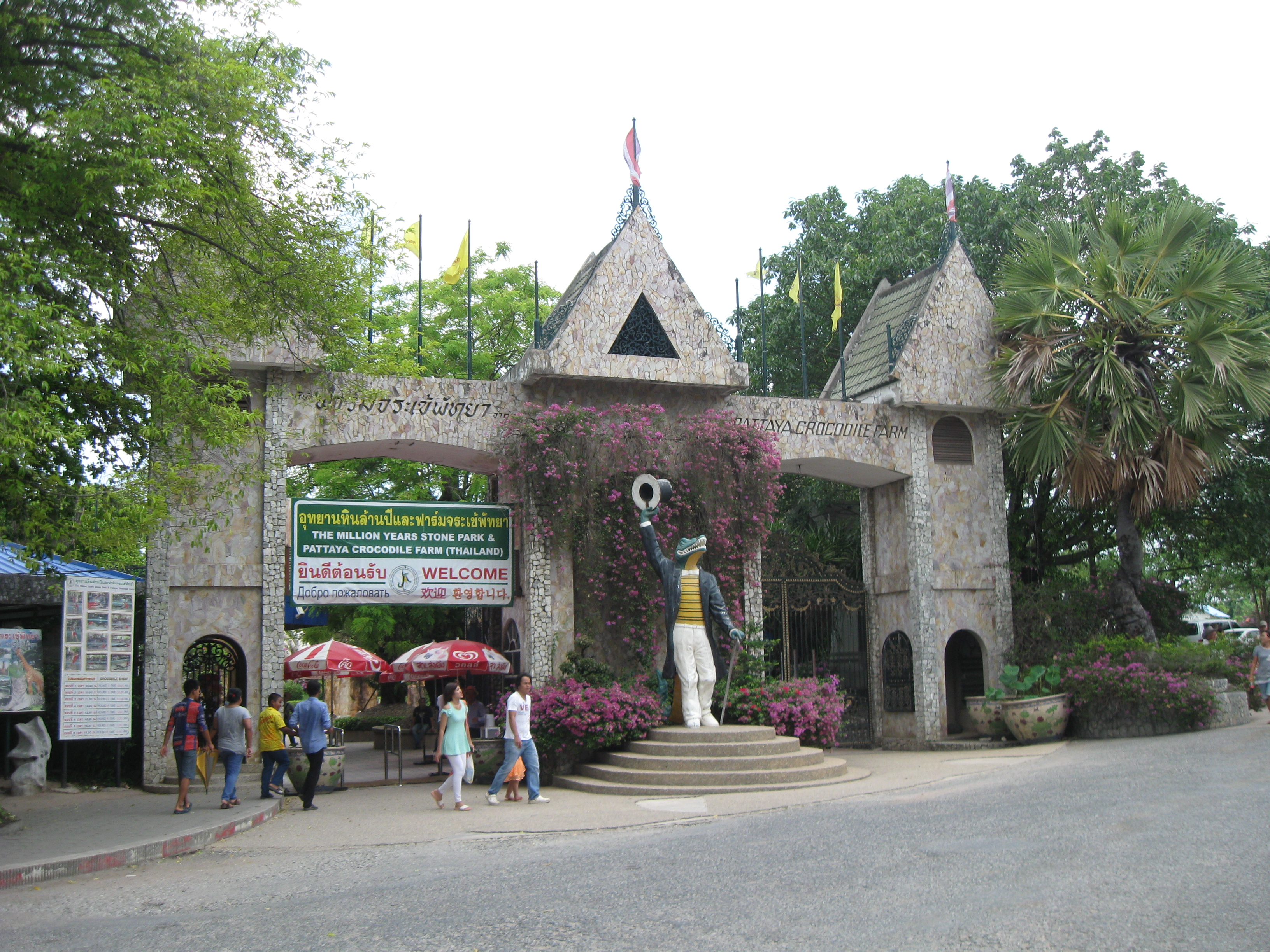 Million stones park and crocodile farm in Pattaya Thailand in May 2014